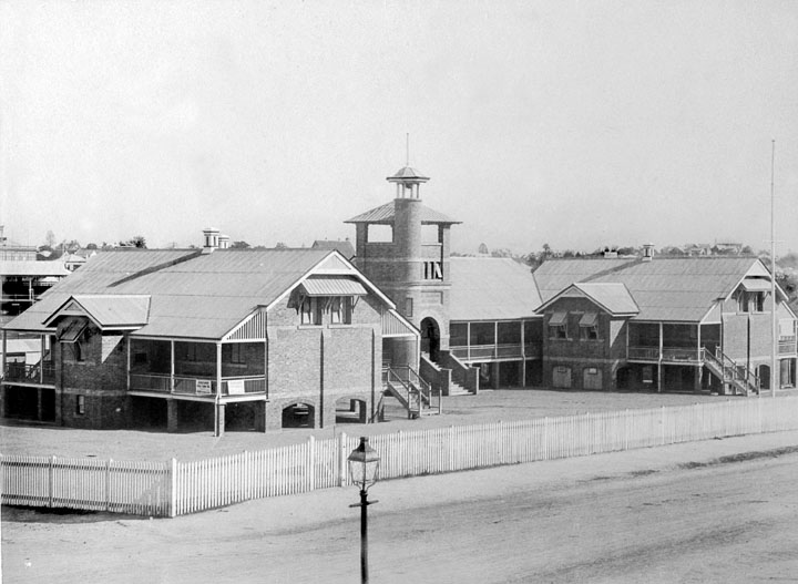 East Brisbane State School, Wellington Road. (Alternative name is Brisbane East State School.)